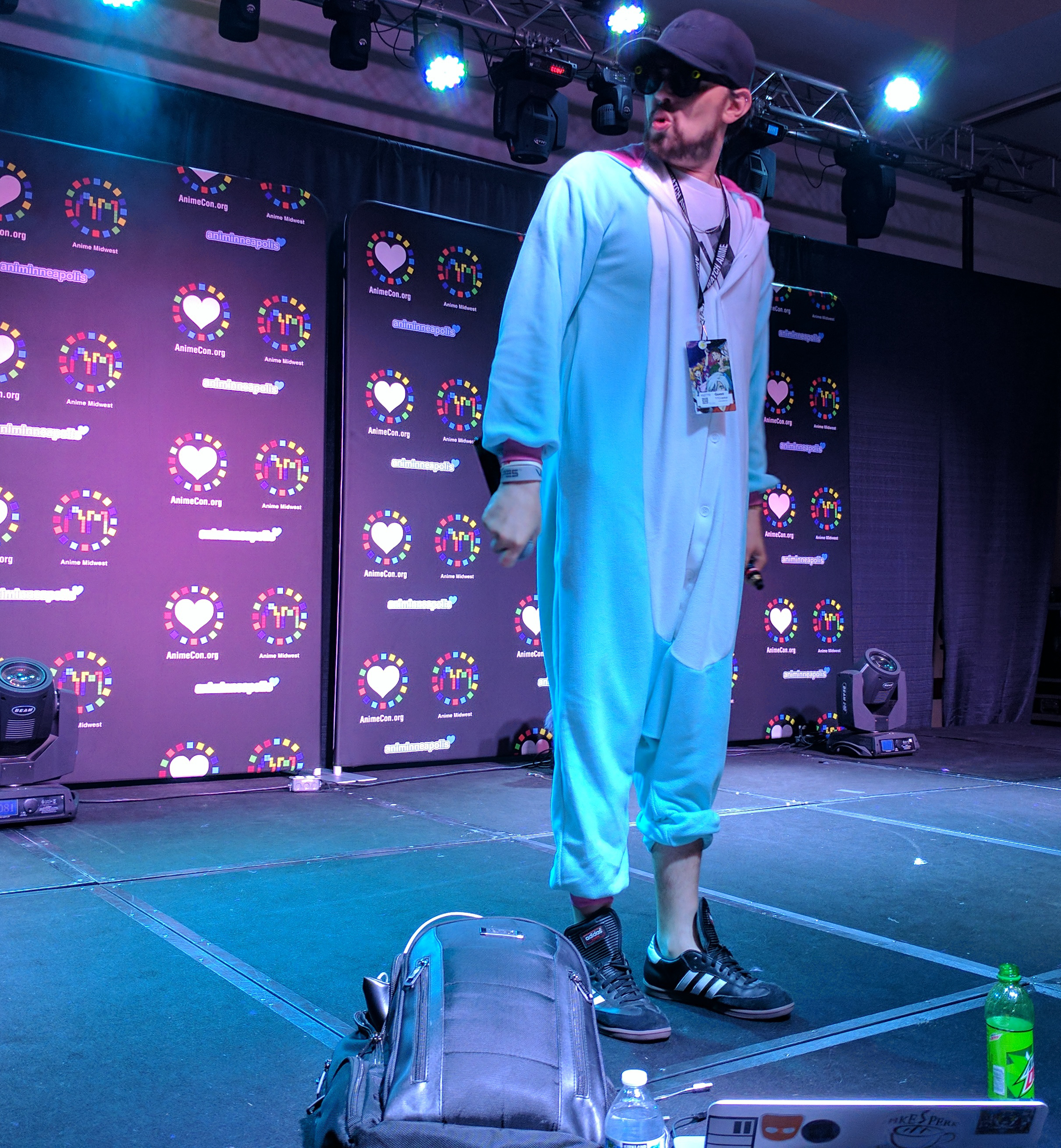 A photo of YTCracker performing in Minneapolis, wearing a Kigurumi with a laptop and Mountain Dew on the floor.